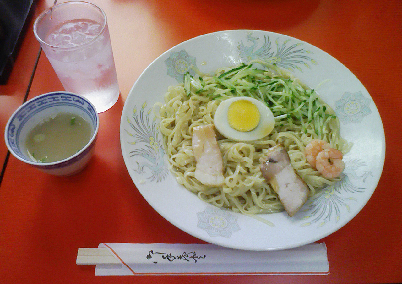 Kure reimen, chilled ramen noodles dish popular in the city of Kure, Hiroshima, Japan.Geotag data added.--トトト (talk) 14:43, 26 September 2011 (UTC)